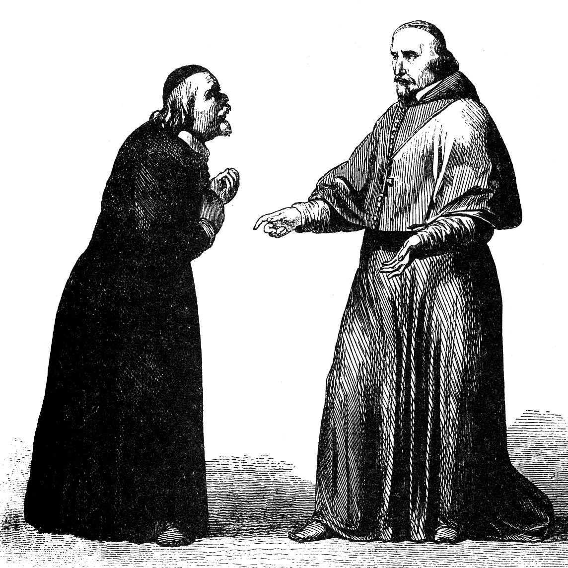 Picture from "I promessi sposi" of don Abbondio and the Cardinal Federico Borromeo